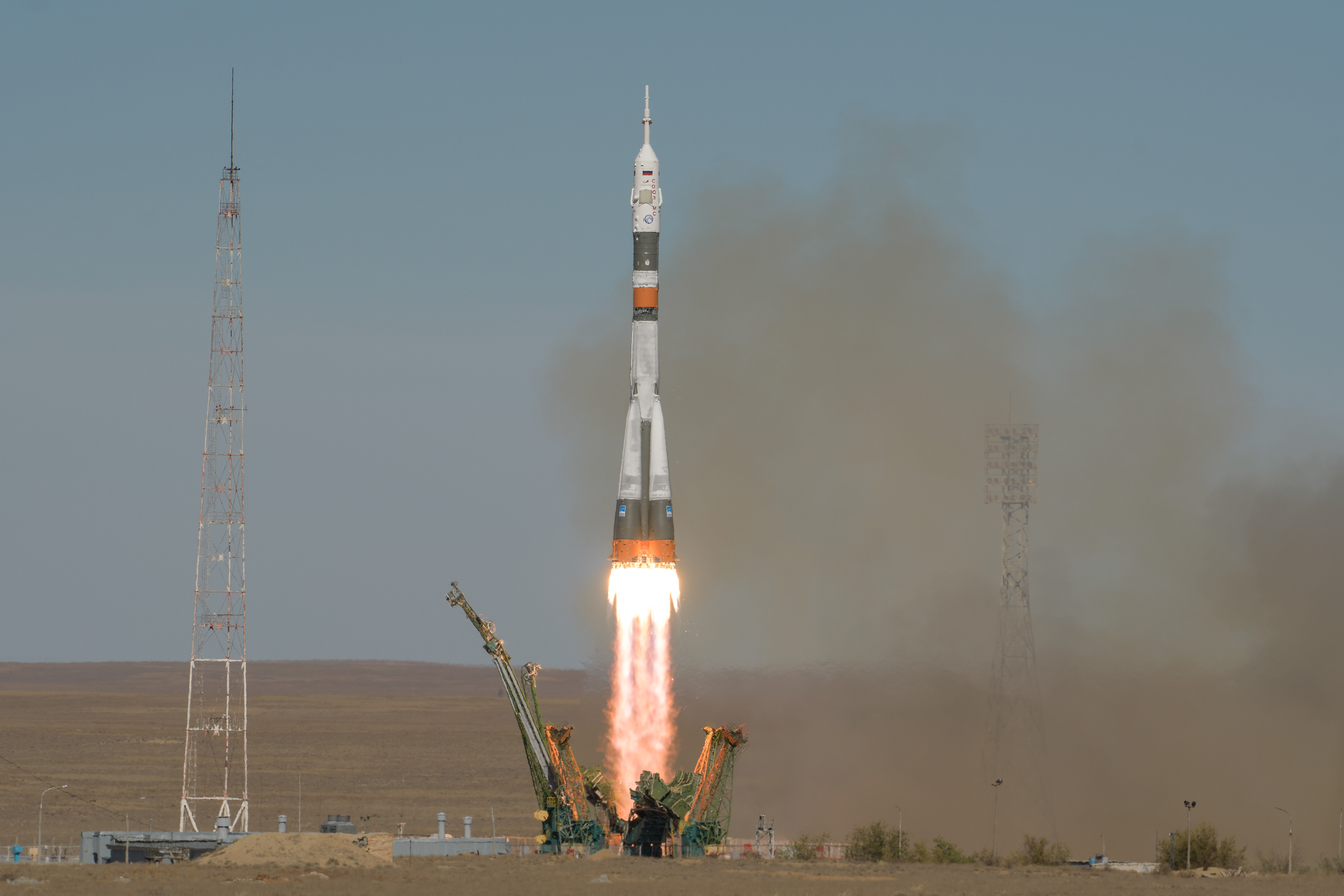 The Soyuz rocket is launched with Expedition 57 Flight Engineer Nick Hague of NASA and Flight Engineer Alexey Ovchinin of Roscosmos, Thursday, Oct. 11, 2018 at the Baikonur Cosmodrome in Kazakhstan. Hague and Ovchinin will spend the next six months living and working aboard the International Space Station.